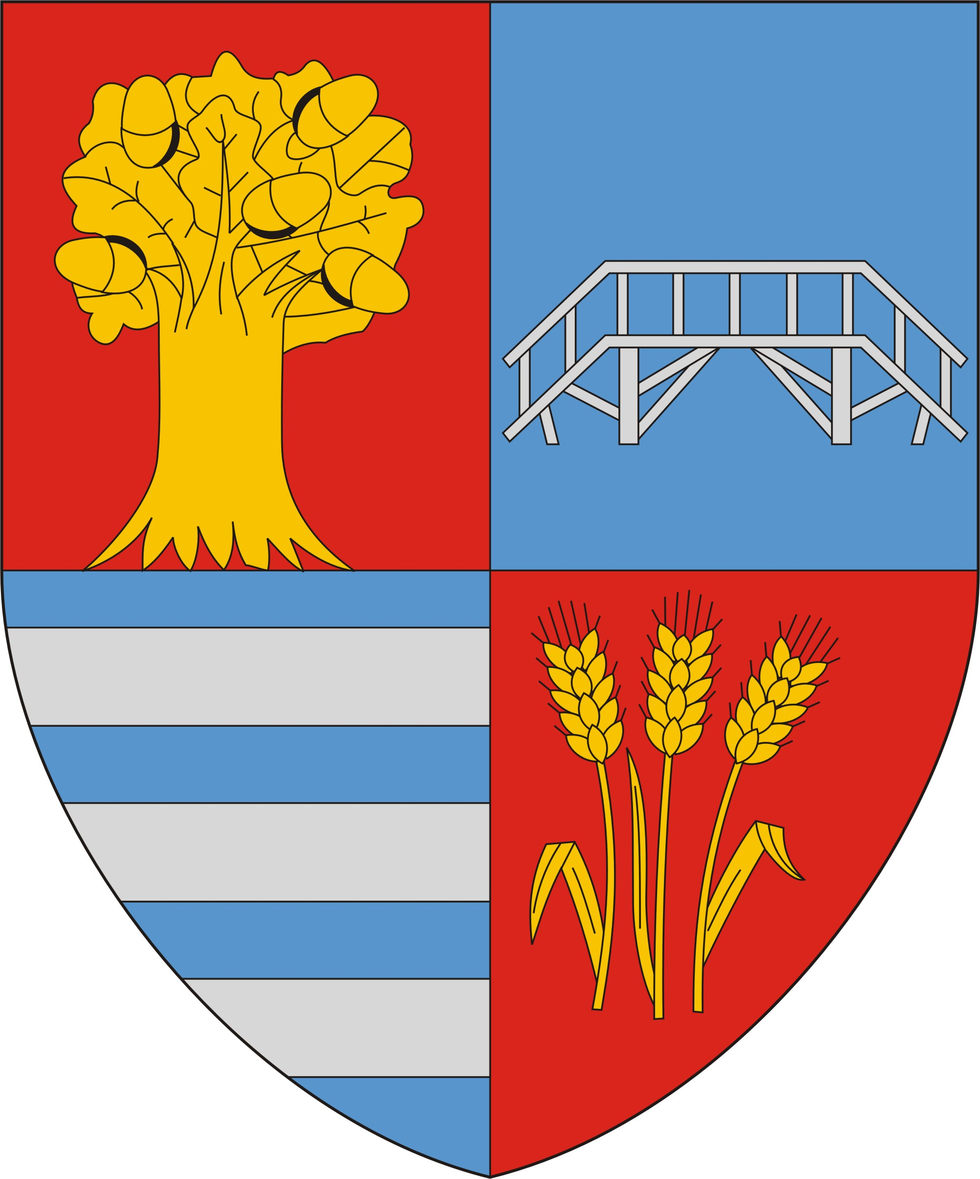 Coat of arms of Vásárosnamény, Hungary